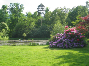 "gardens at Bulstrode"